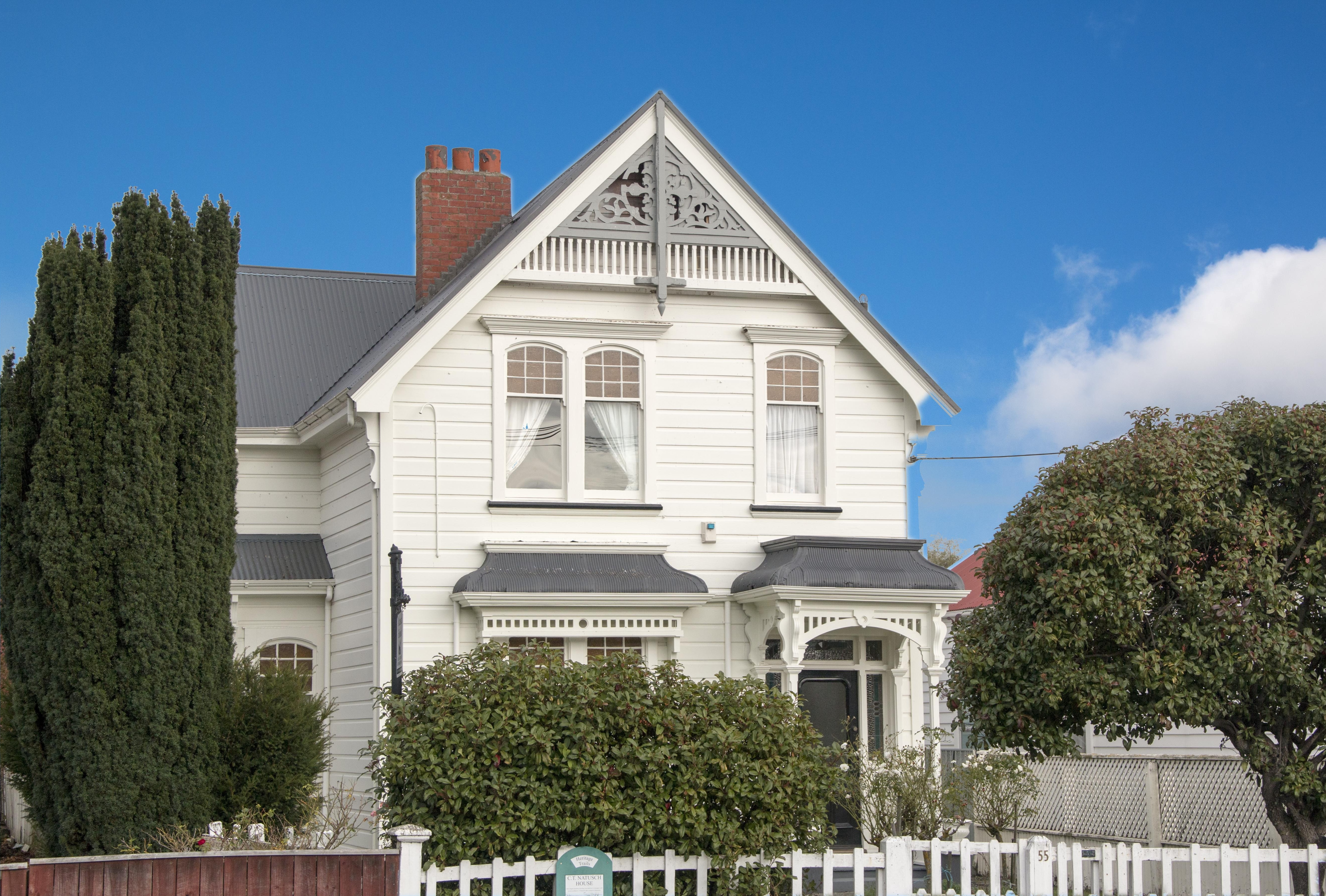 Natusch House. A Heritage Building in Lincoln Road, Masterton. NZHPT 1318 (Cat II). Record at Heritage New Zealand